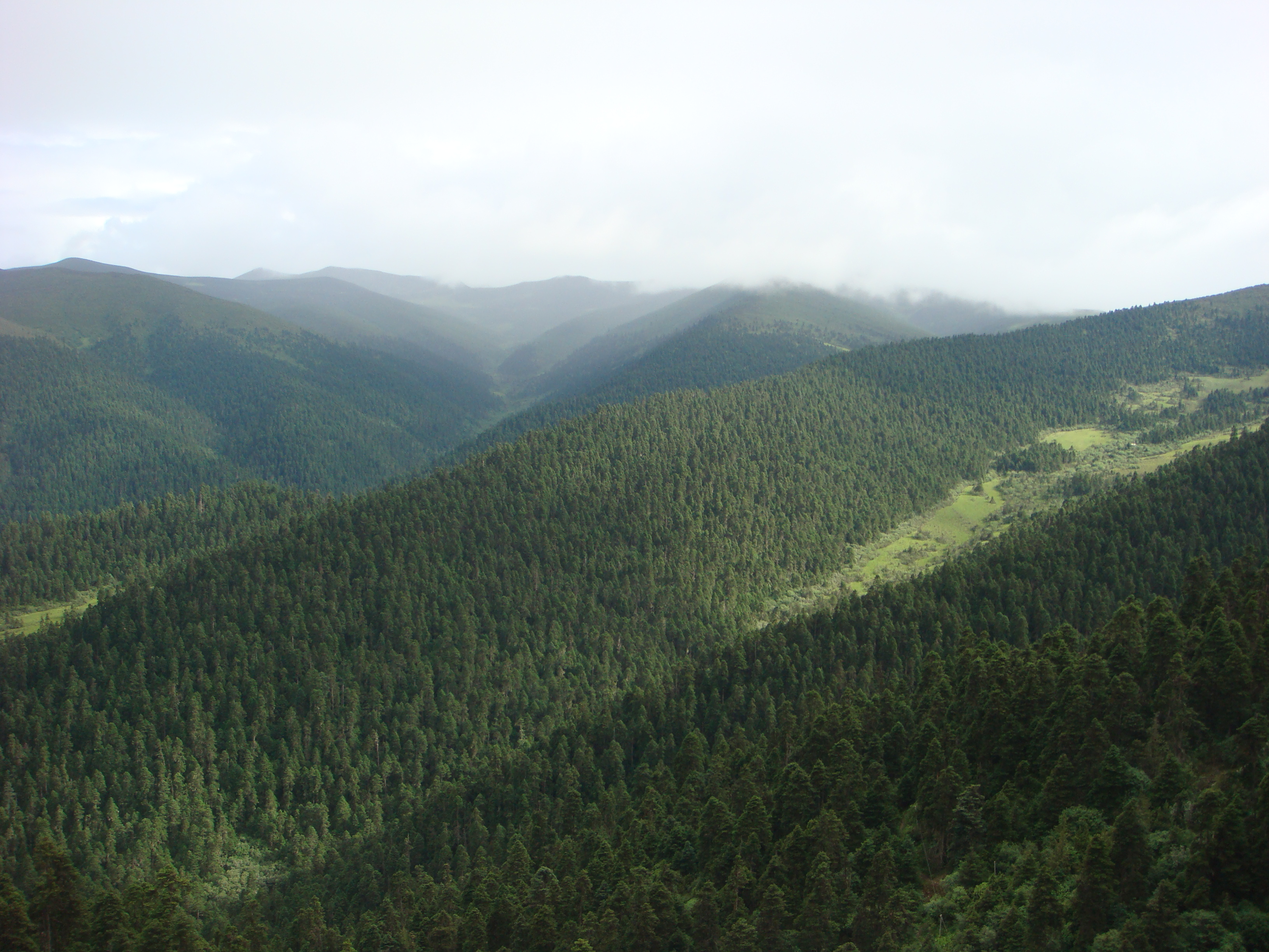 2011 Forest in Nyingchi